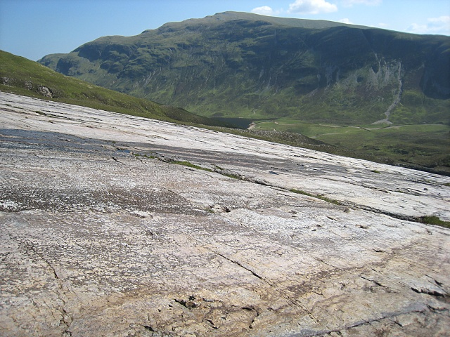 Fhearchair Slabs Looking across these impressive slabs to Creag Rainich. The small lochan is the southern end of Loch an Nid.